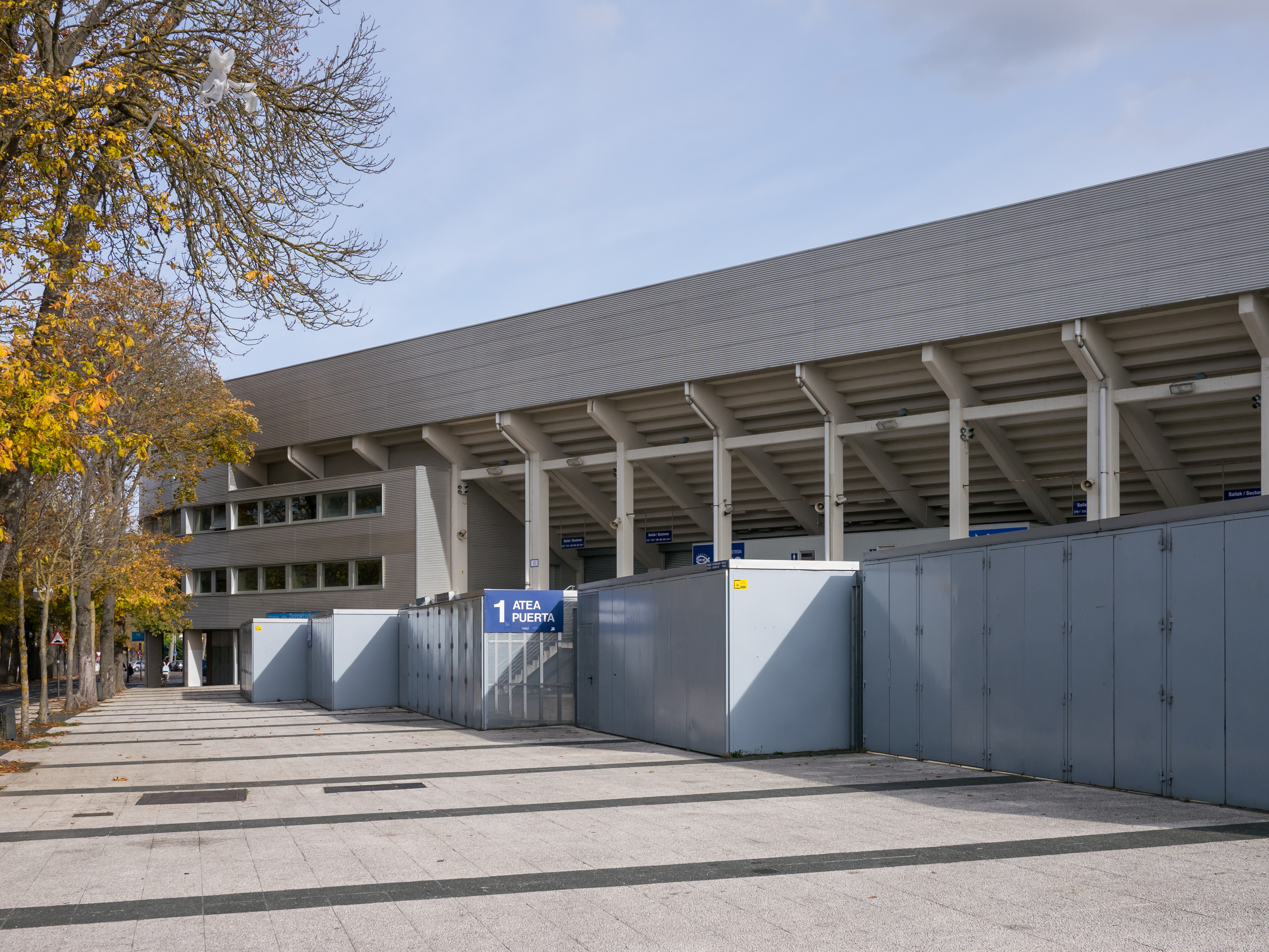 Exterior of the Mendizorroza stadium (FC Deportivo Alavés). Vitoria-Gasteiz, Basque Country, Spain